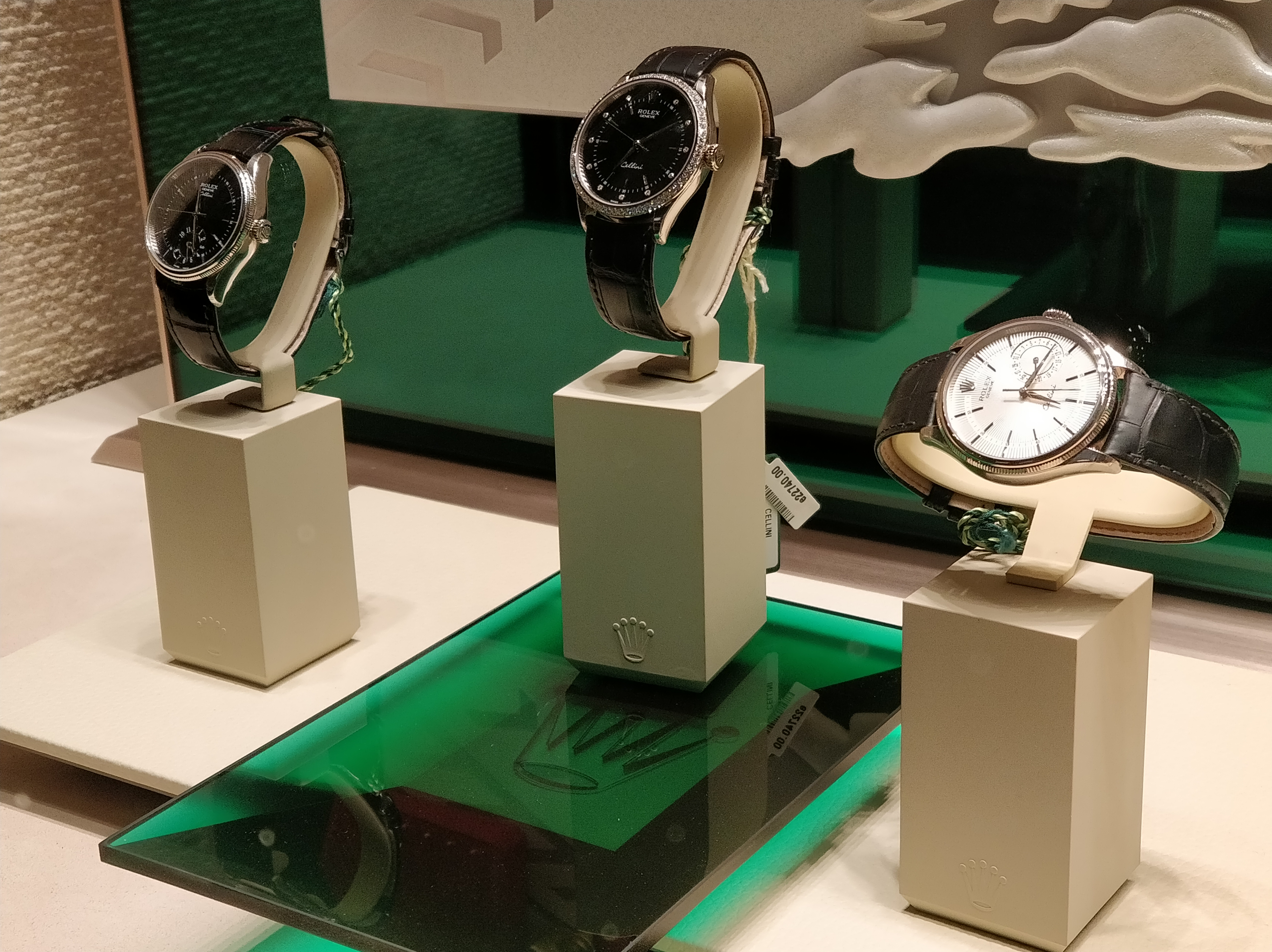 Rolex watches in Helsinki store window